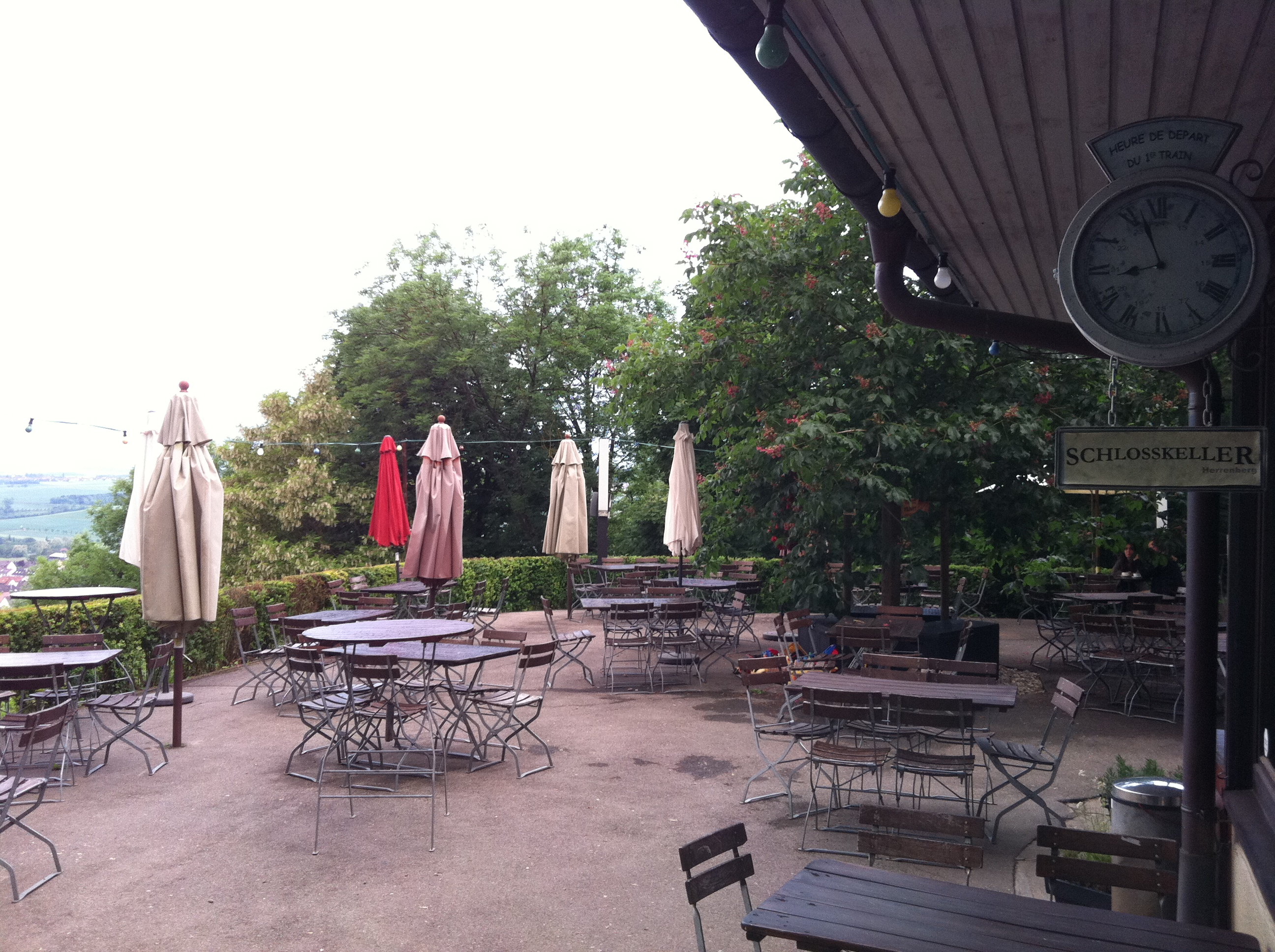 Castle Cellar in Herrenberg (Germany)